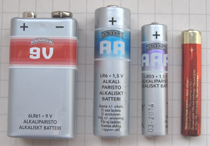 A 9V, AA, AAA, AAAA battery in close proximity for comparisisation porpoises.